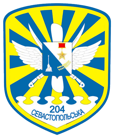 Shoulder sleeve insignia of the Ukrainian Air Force 204th Tactical Aviation Brigade